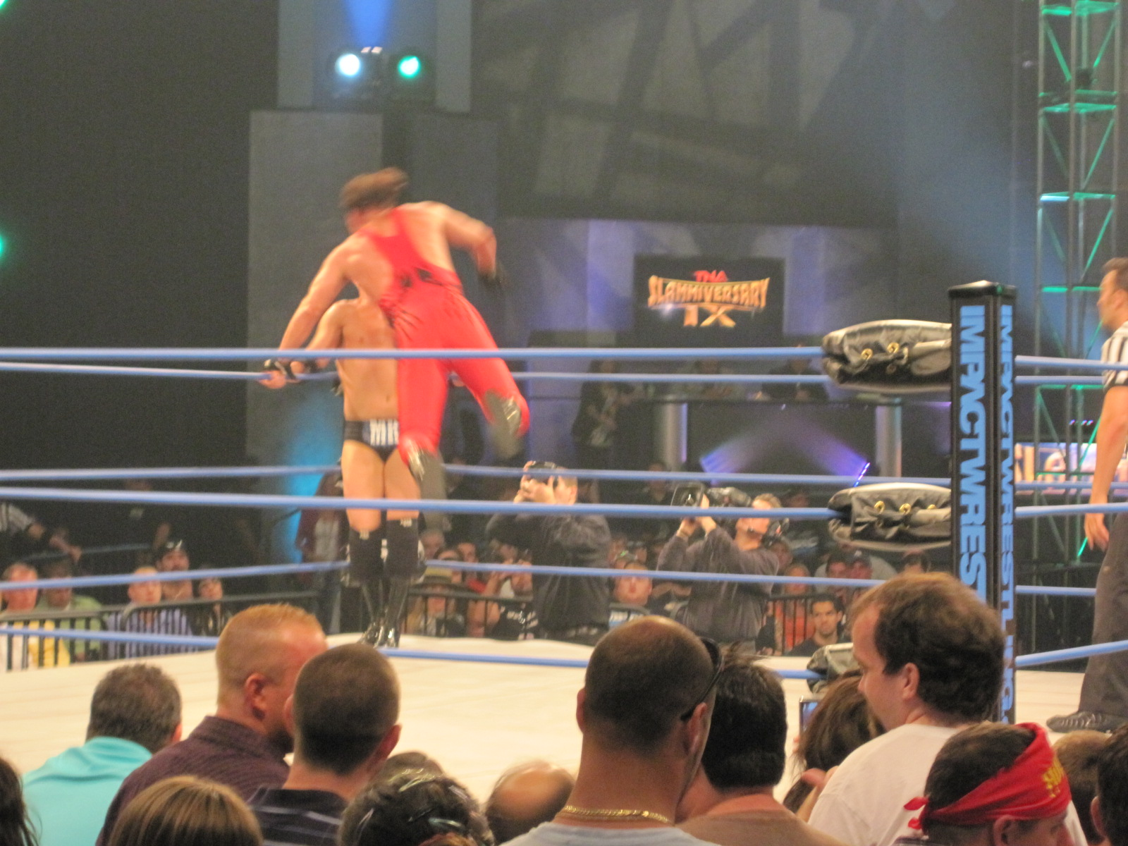 Sunday, June 12, 2011. Universal Orlando